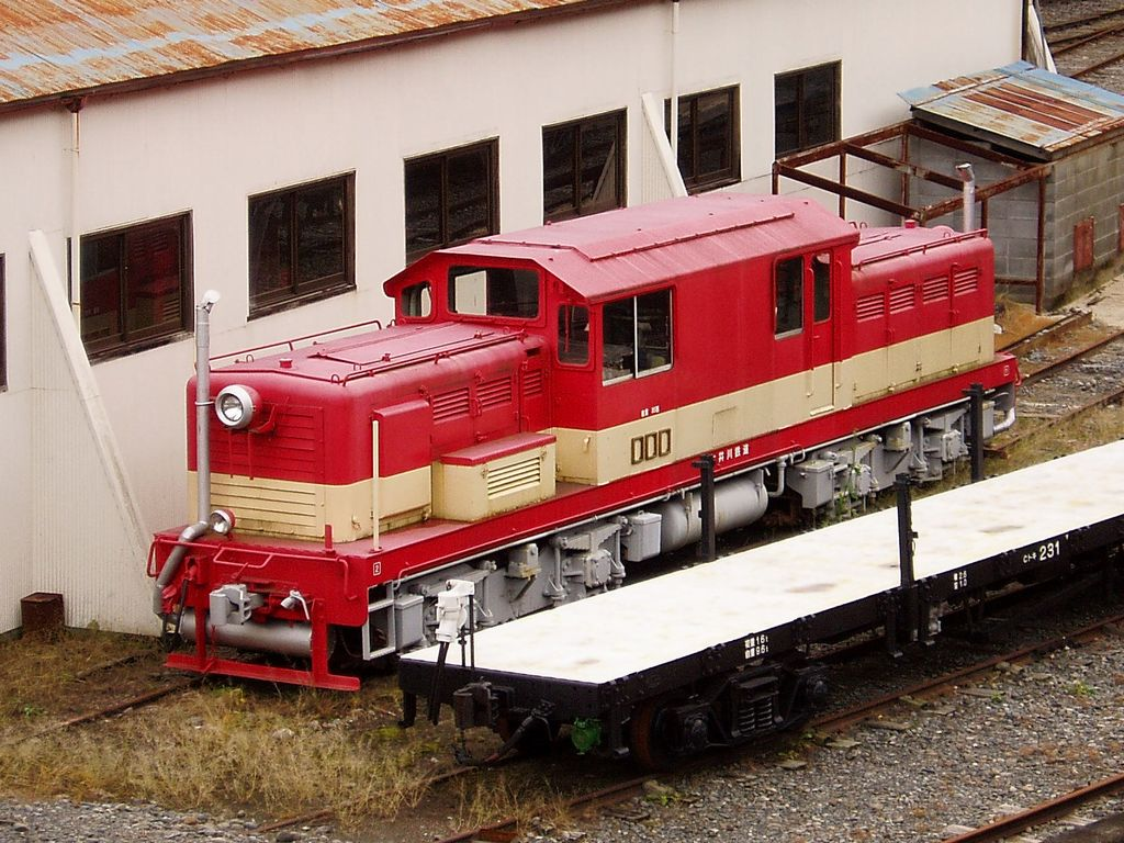 Oigawa Railway type DD107. at Kawane-Ryogoku Dept. 2007.10.09 Photo by Cassiopeia_sweet.